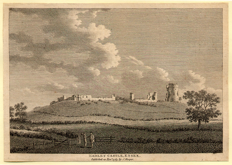 Engraving of Hadleigh Castle, Essex, published by S. Hooper in 1783-11-20. The print is a reworking of an earlier engraving made by D.L. 1772-10-01.